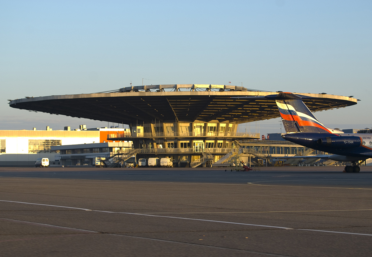 Sheremetyevo-1